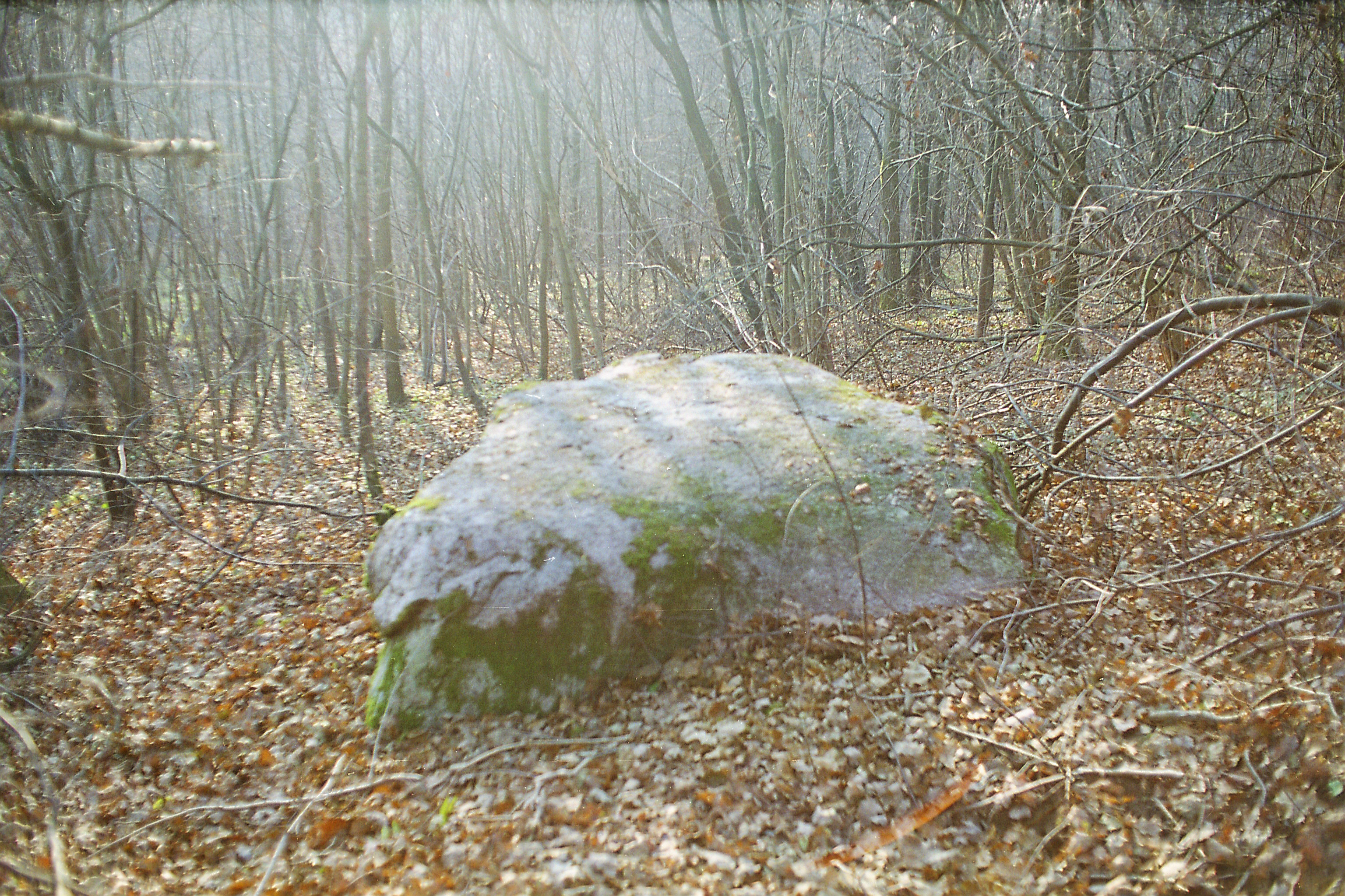 Prystovai, Kretinga district, Lithuania